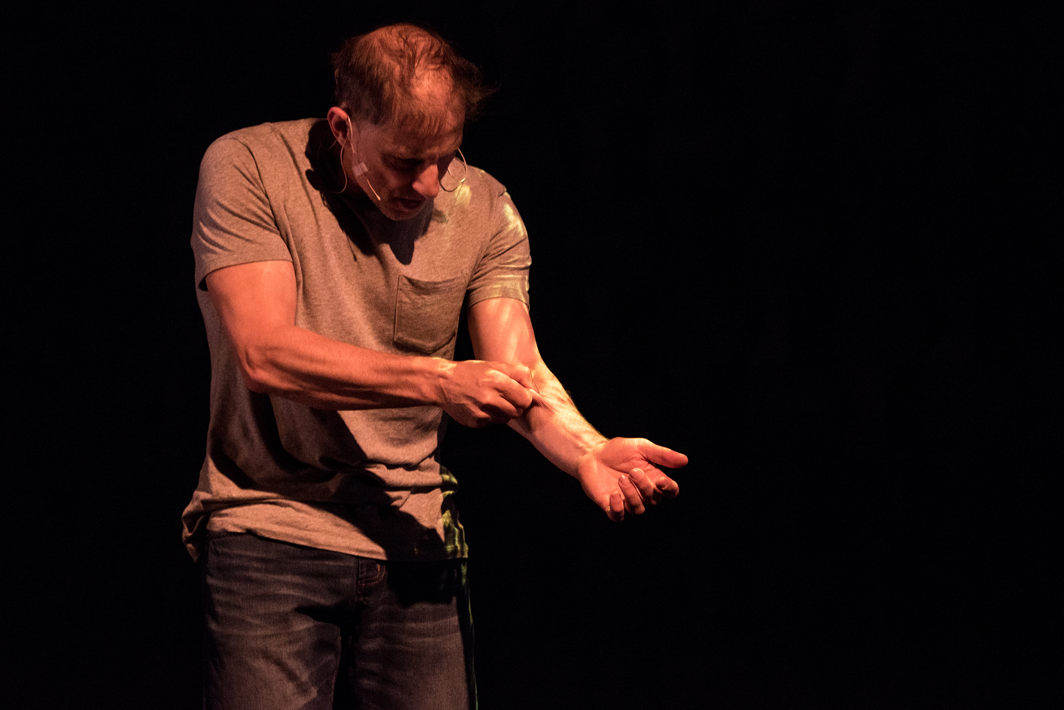 Simon McBurney in "The Encounter" (Théâtre de Complicité), World Premiere at the Edinburgh International Festival, August 2015